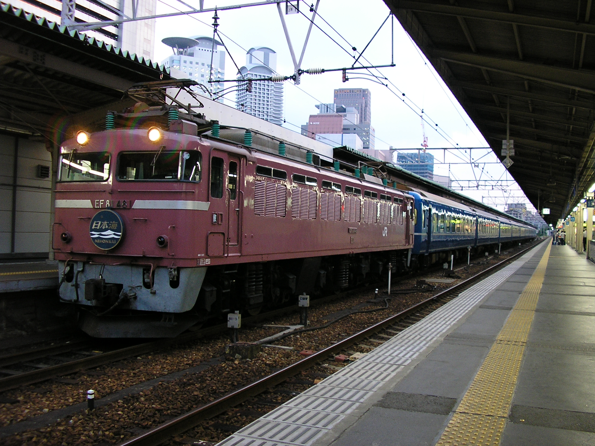 JR West Class EF81 electric locomotive EF81 48 at Osaka Station on a Nihonkai overnight sleeping car service